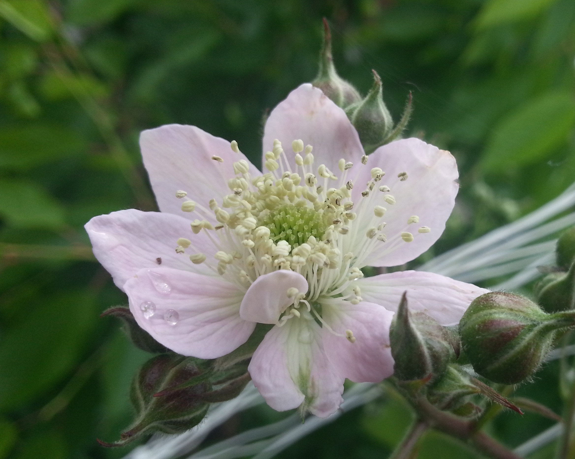 Blackberry flower from the plant 4 meters bellow